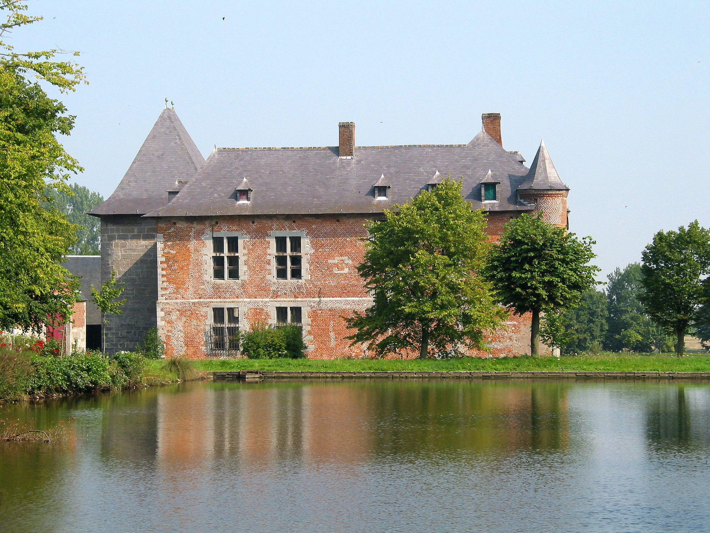 Noville-les-Bois (Belgium), the Fernelmont castle (XIII/XVIth centuries).